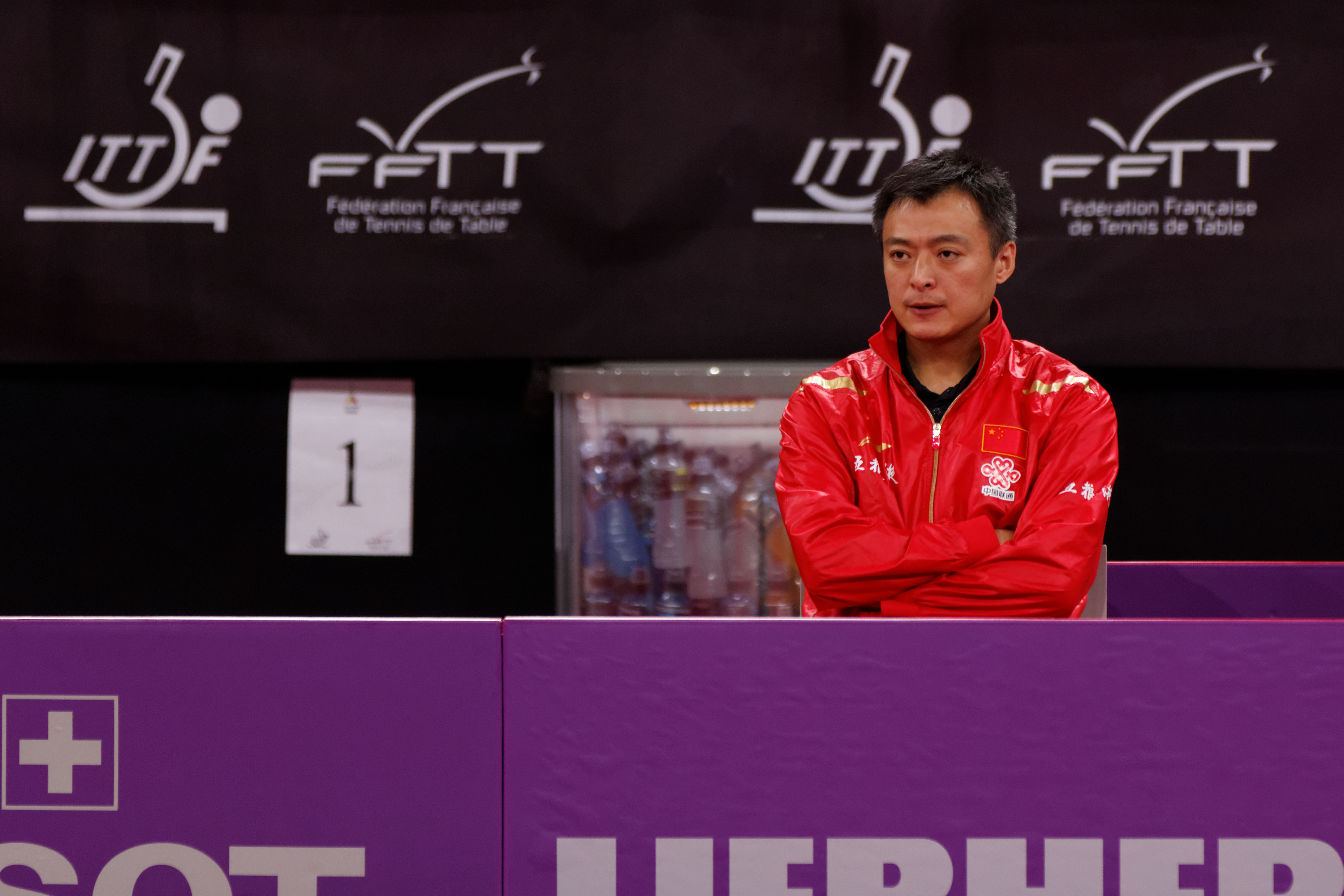 2013 World Table Tennis Championships, Paris. Mixed Doubles Semifinal. Lee Sang-Su and Park Young-Sook vs Wang Liqin and Rao Jingwen